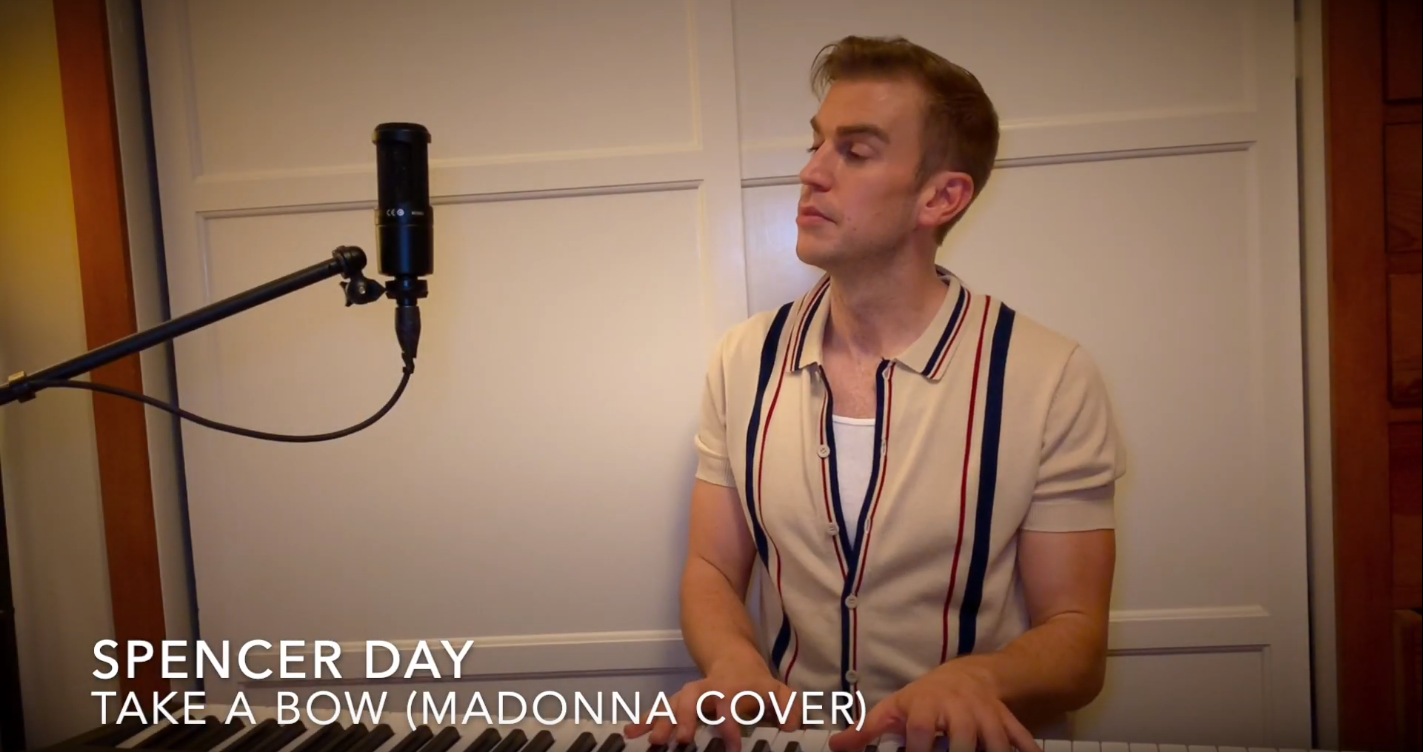 A picture showing Spencer Day singing "Take a Bow" by Madonna.